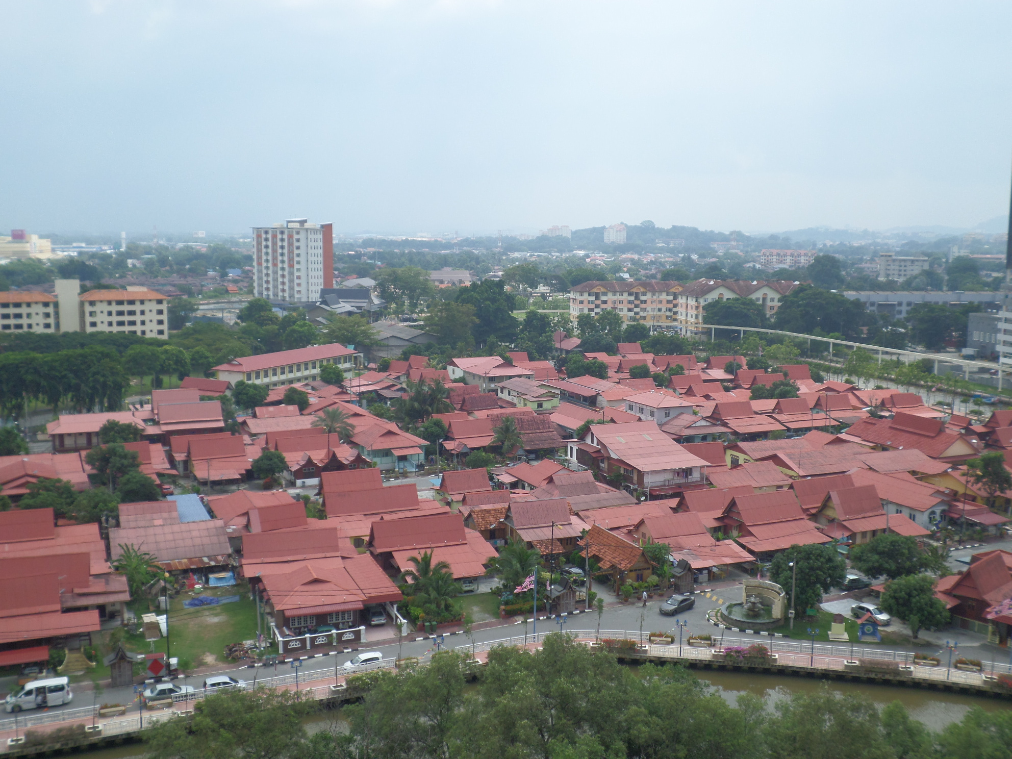 Morten Village, Malacca City, Malacca, MalaysiaBahasa Melayu: Kampung Morten, Bandaraya Melaka, Melaka, Malaysia